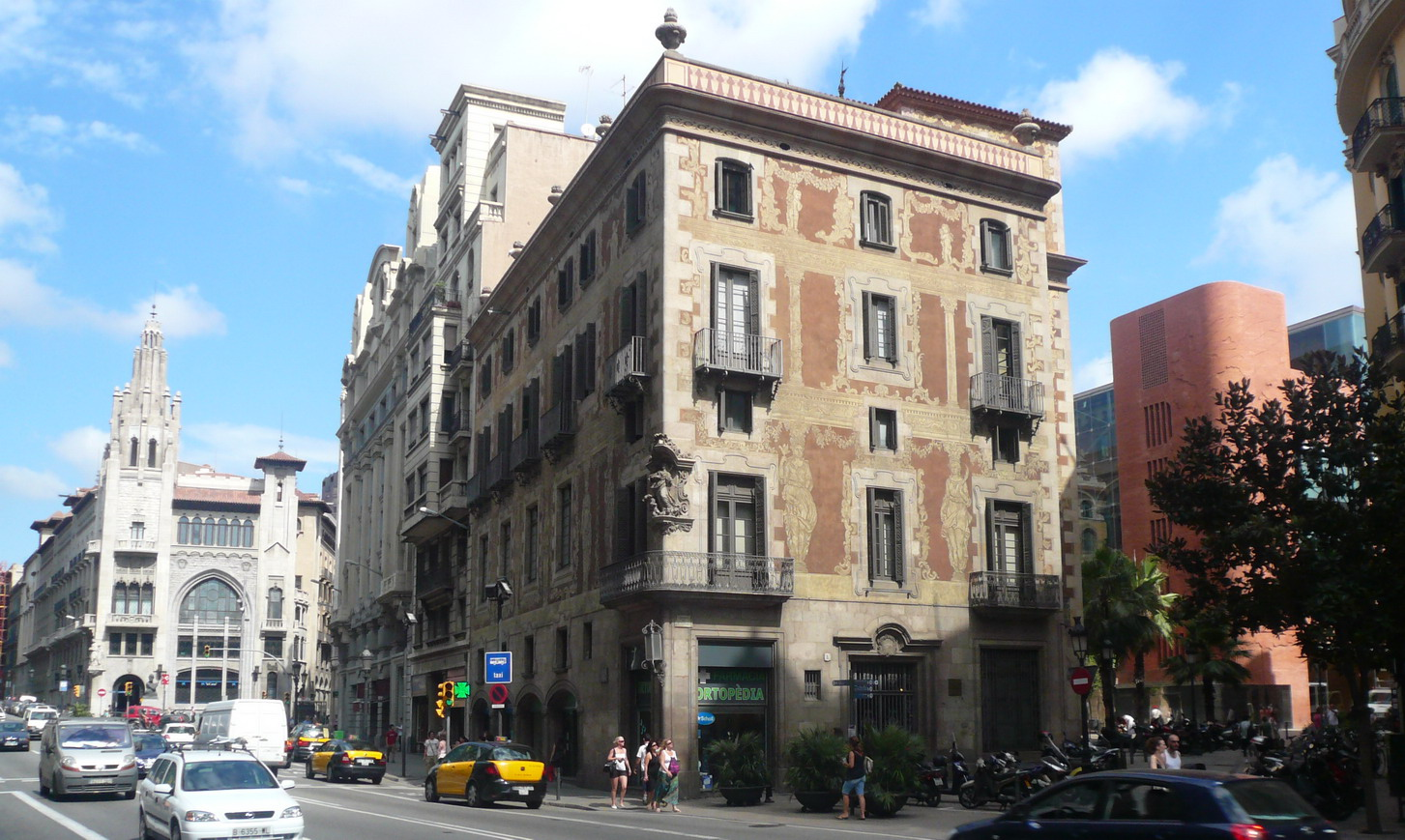 Casa del gremi dels velers, la Caixa de Pensions (left) and Palau de la Música (right), Barcelona.